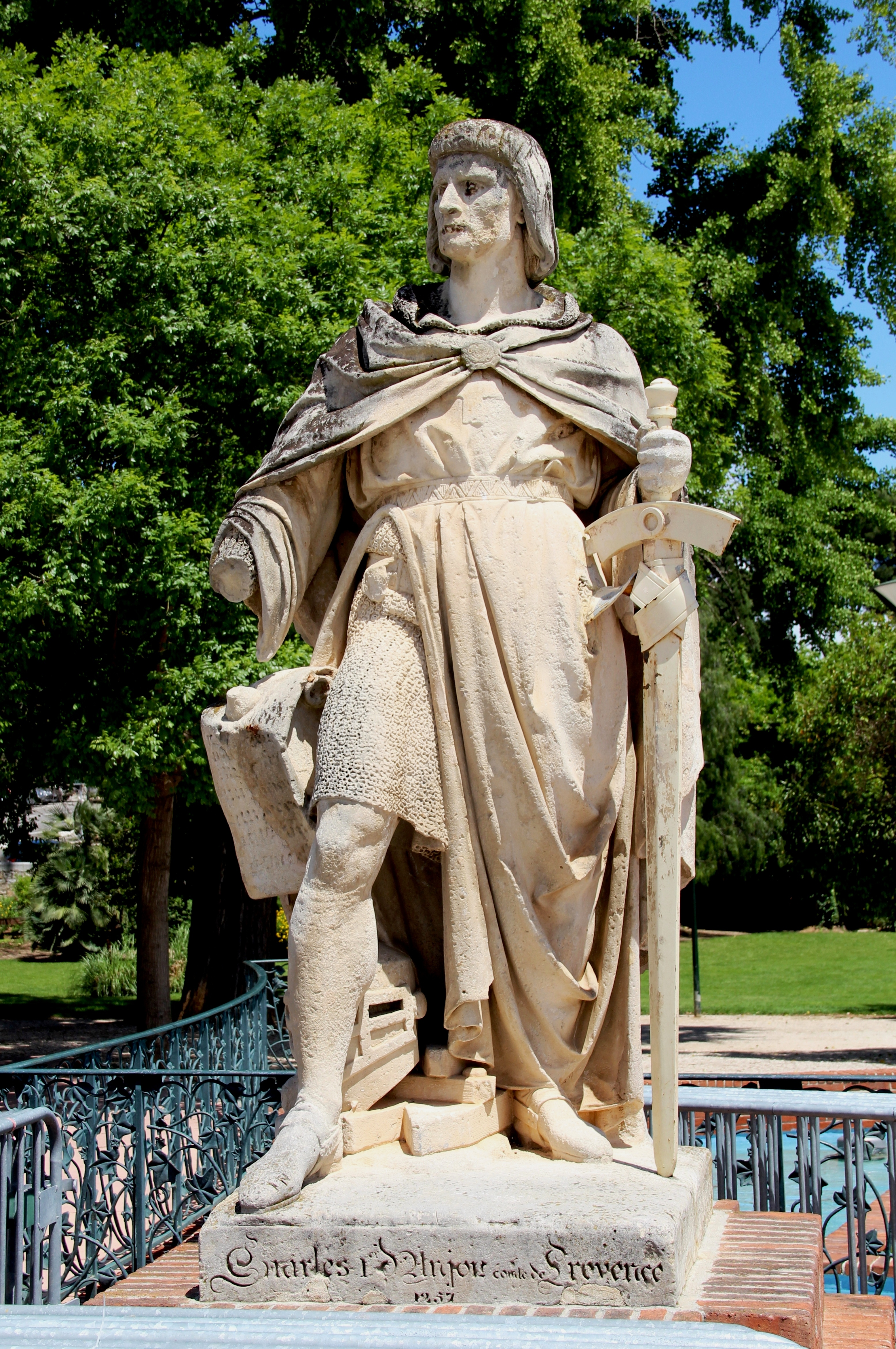 Charles I of Naples - Charles I d'Anjou comte de Provence - Statue in Hyeres Provence - Sculpture de Louis-Joseph Daumas